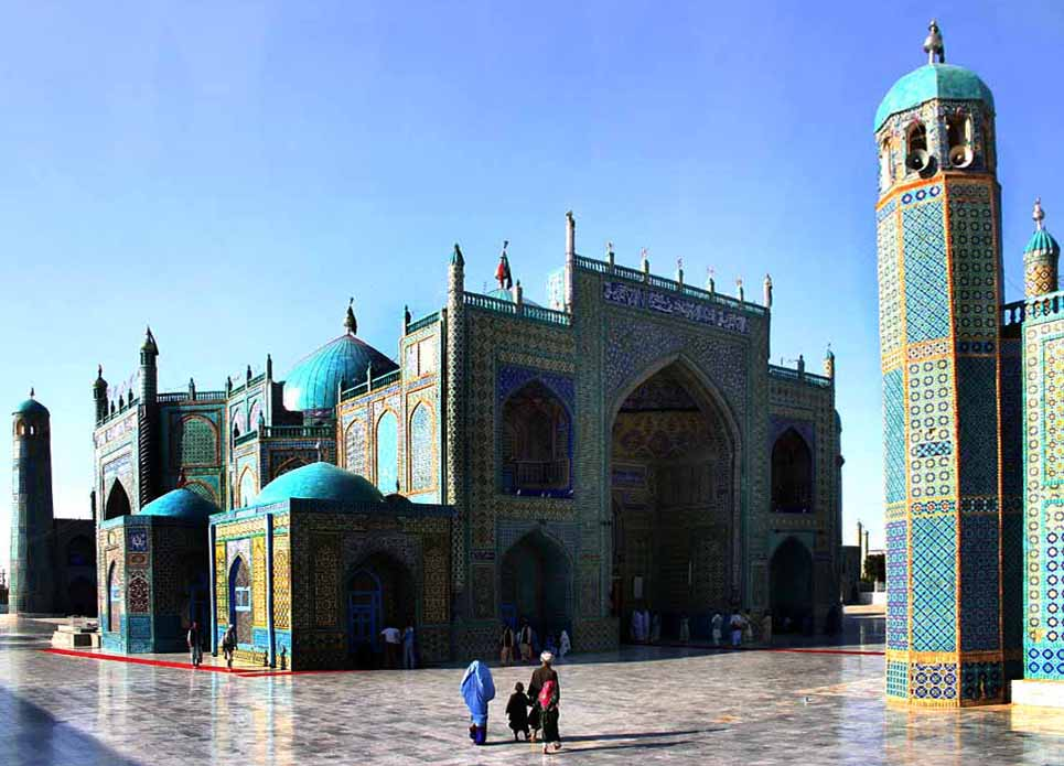 Mazar-e Sharif, AfghanistanAfghanistan